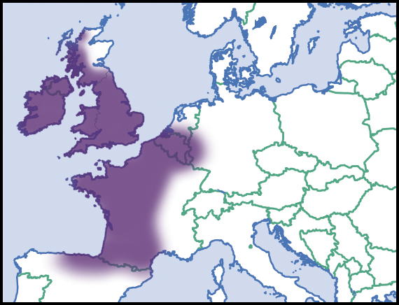 Acicula fusca (Montagu, 1803). Distributional range in Europe, scientific state of knowledge of 2012. Source description in English Species summary in AnimalBase